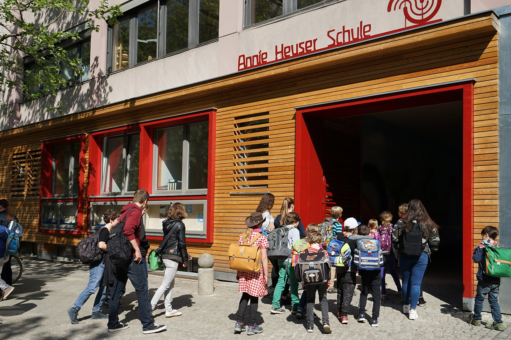 School Building and entrance of Annie Heuser School, Berlin